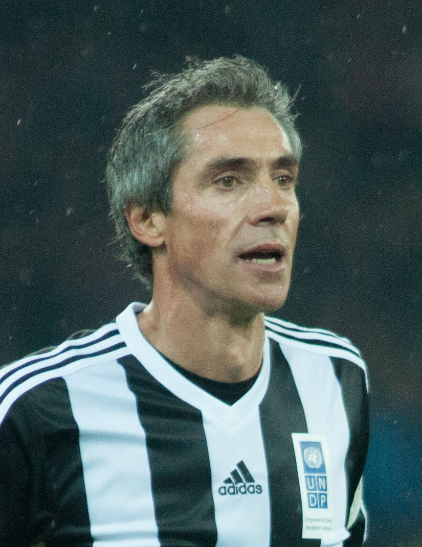 Former portuguese footballer Paulo Sousa in "Football against poverty" match in Bern, 2014.